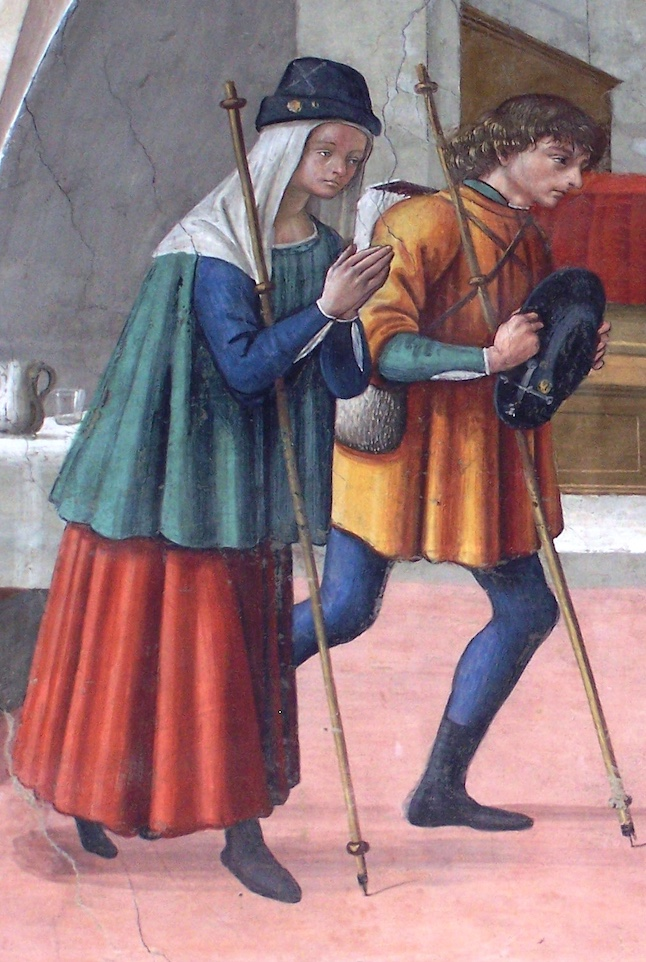 Detail of Housing Pilgrims, fresco located in the Oratory of the Buonomini.